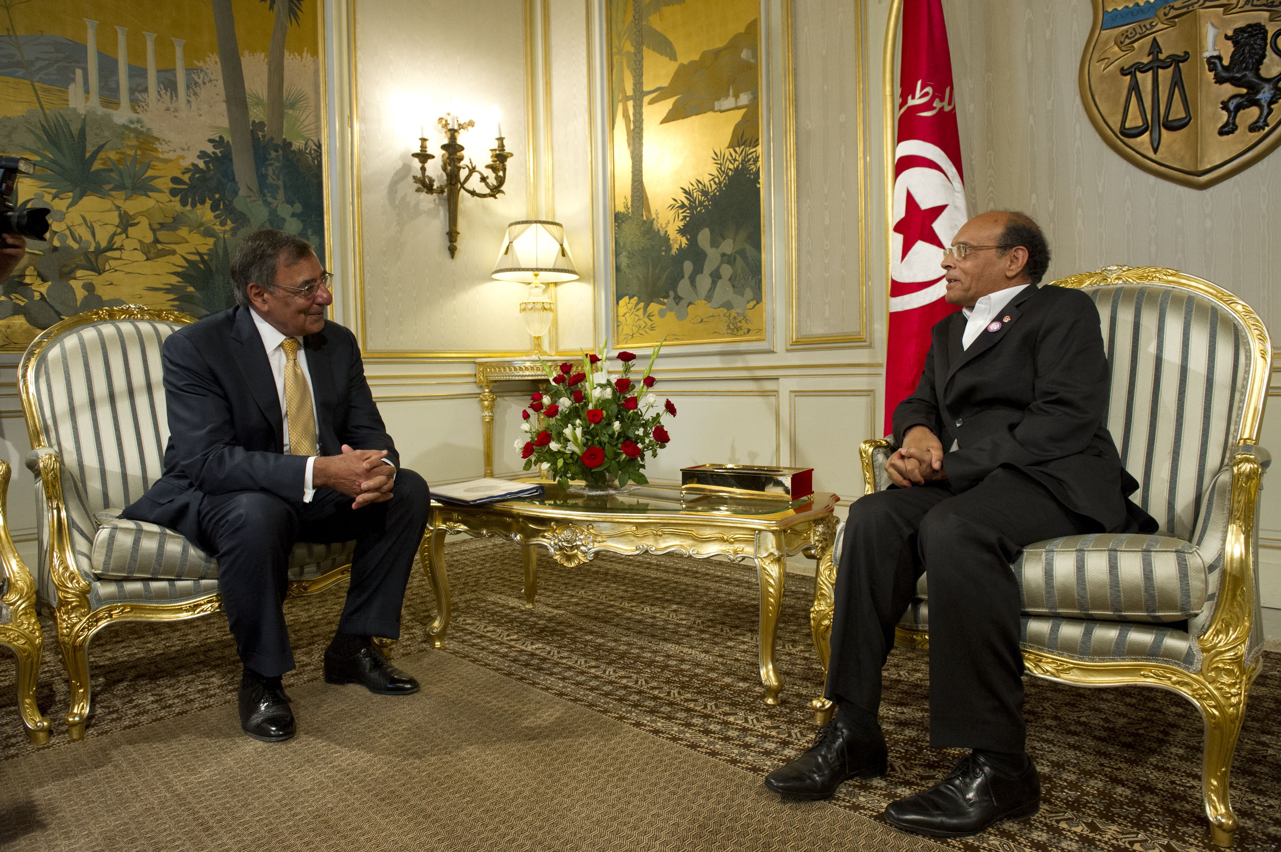 Secretary of Defense Leon E. Panetta, left, meets with Tunisian President Moncef Marzouki in Tunis, Tunisia, on July 29, 2012. Panetta is on a 5-day trip to the region, stopping in Tunisia, Egypt, Israel and Jordan to meet with senior leaders and counterparts.